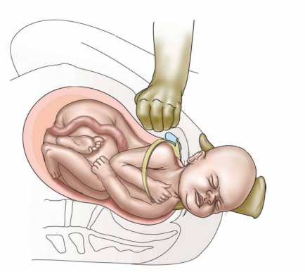 Suprapubic pressure being used in a shoulder dystocia